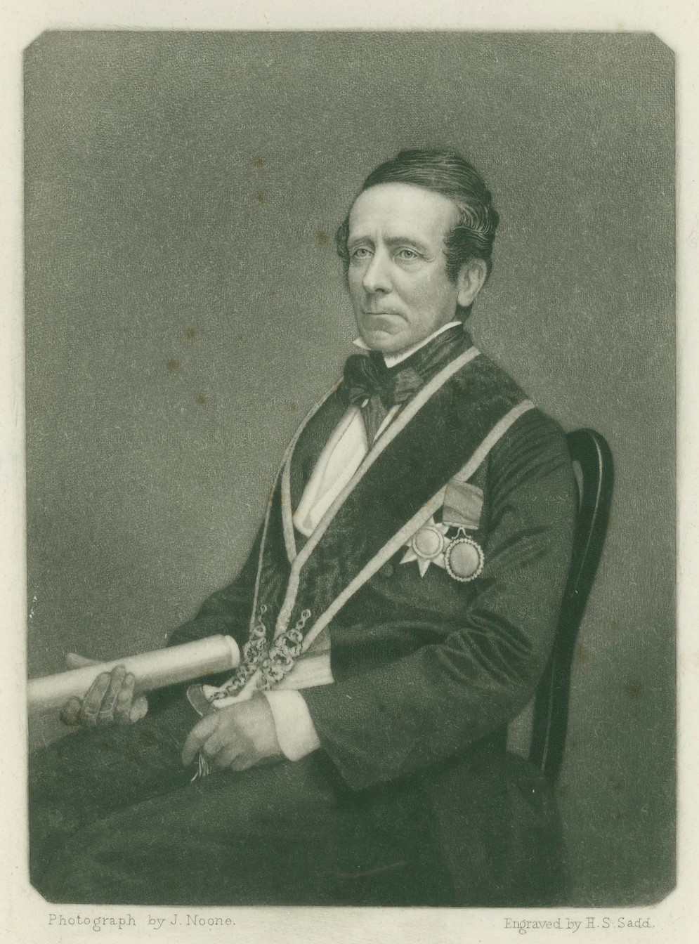 Portrait of Augustus F. A. Greeves